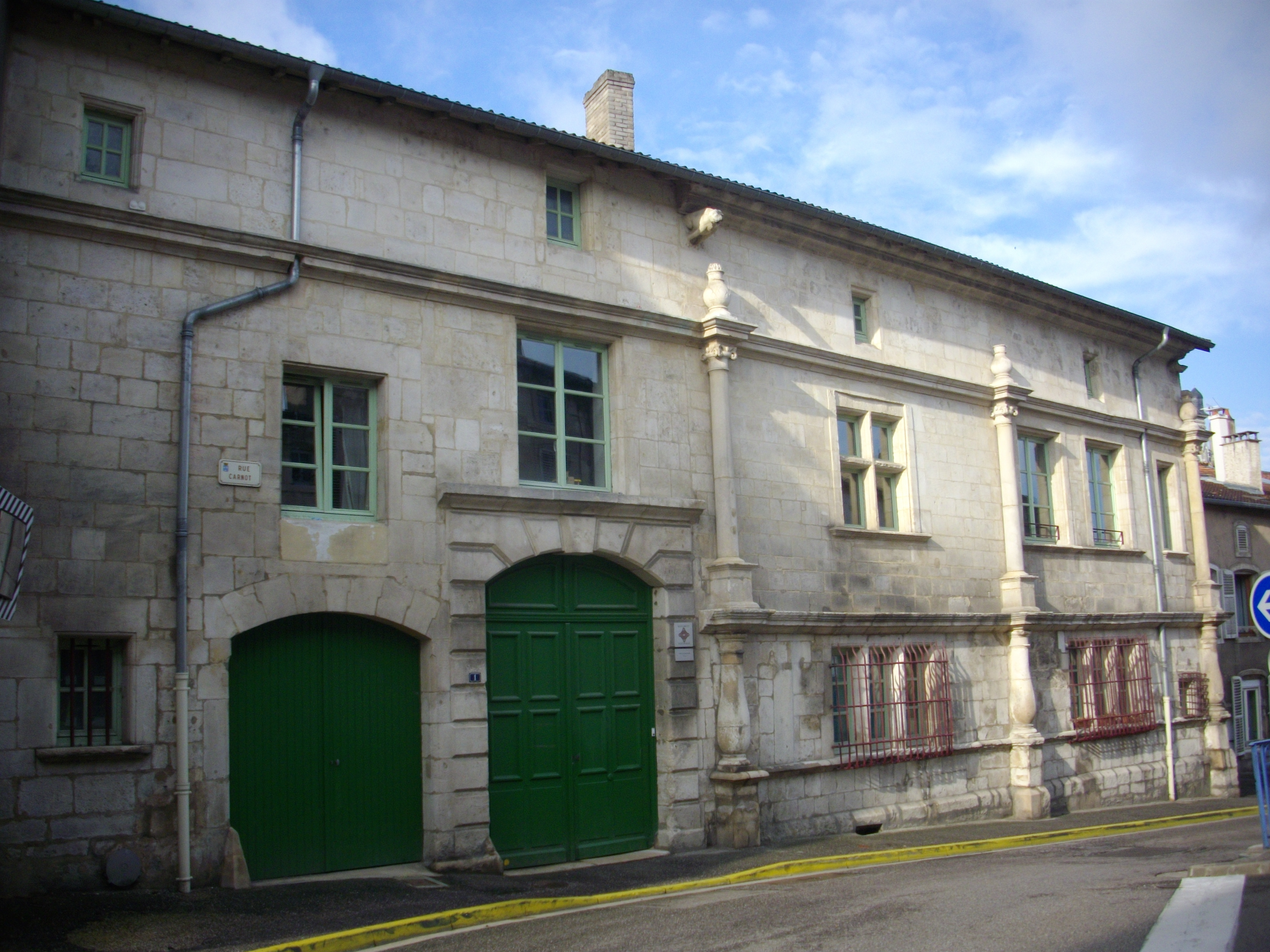 Bousmard hotel in Saint-Mihiel (Meuse, France) .